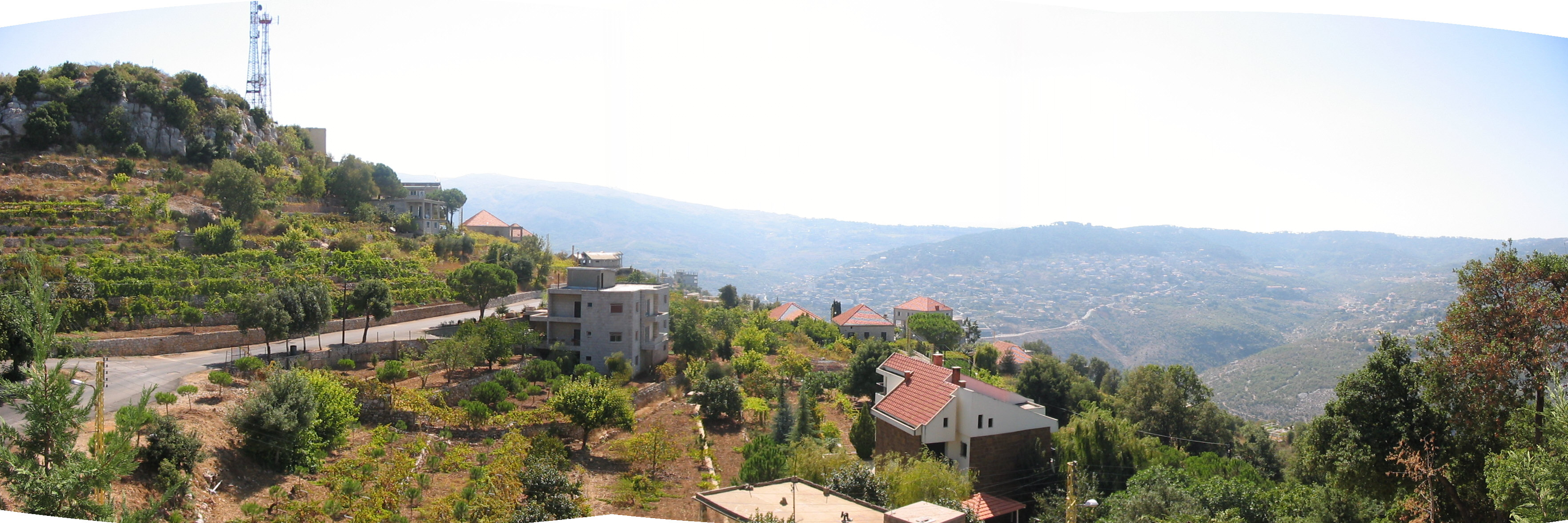 Panorama photograph of the village of Kfarakab in Lebanon.